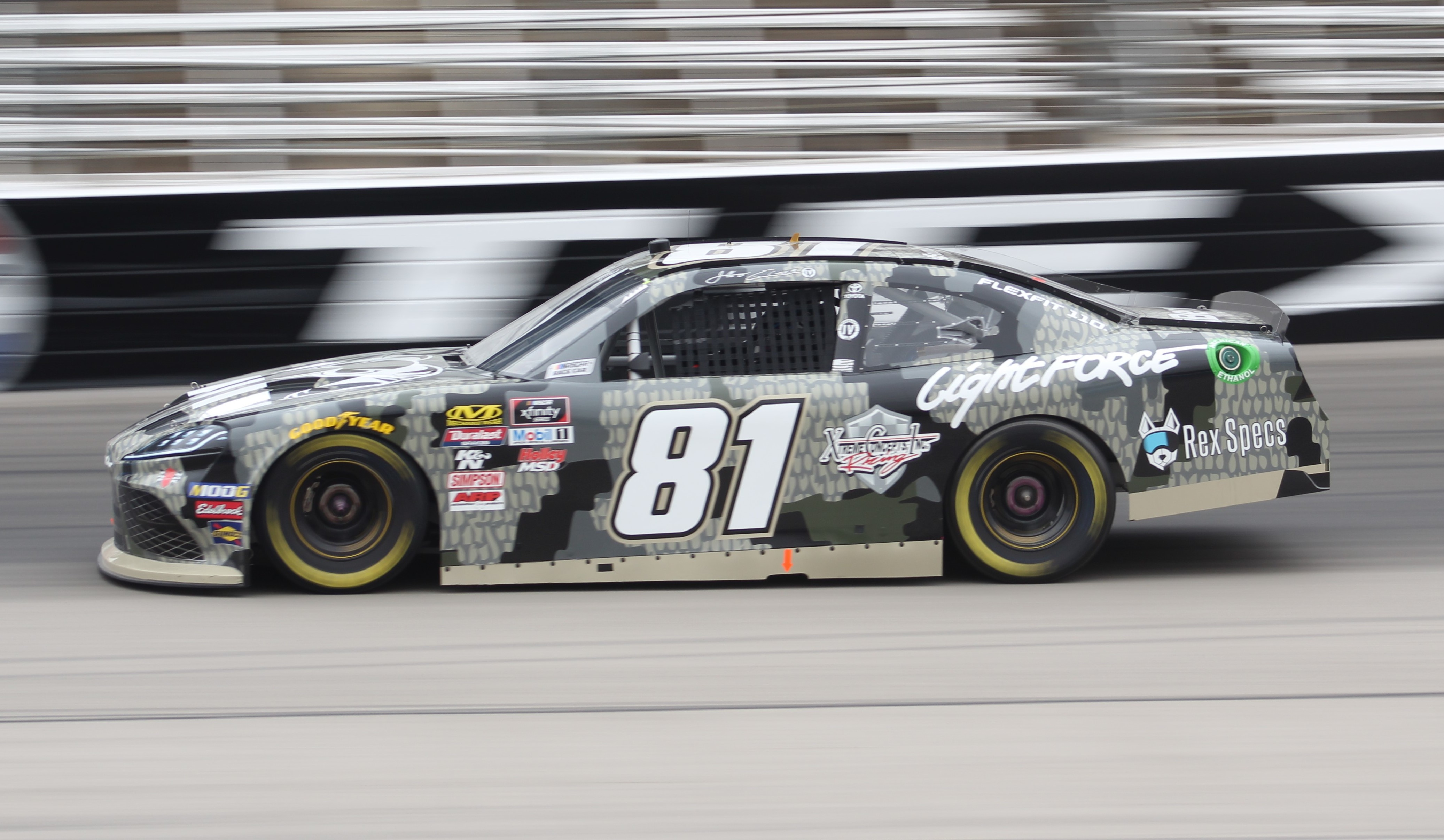 2019 O'Reilly Auto Parts 500